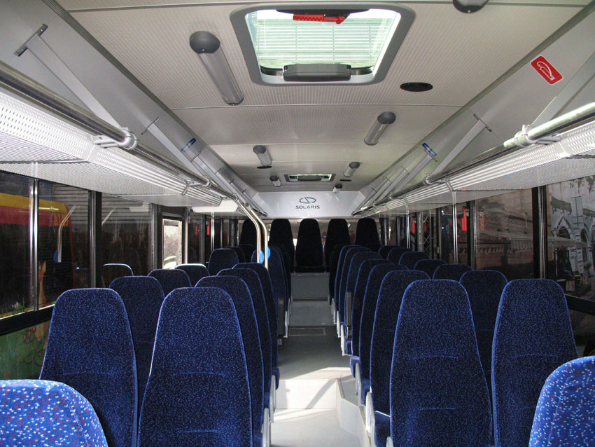 Solaris Valletta intercity bus in Kielce, Poland. Built 2007, Transexpo 2007.